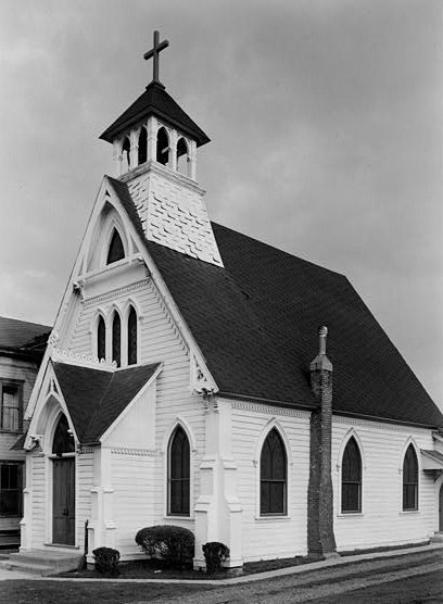 St. Mark's Episcopal Church, Jamesville (Onondaga County, New York) cropped This file comes from the Historic American Buildings Survey (HABS), Historic American Engineering Record (HAER) or Historic American Landscapes Survey (HALS). These are programs of the National Park Service established for the purpose of documenting historic places. Records consist of measured drawings, archival photographs, and written reports. When reusing please credit: Library of Congress, Prints & Photographs Division, NY,34-JAMS,1-1 This tag does not indicate the copyright status of the attached work. A normal copyright tag is still required. See Commons:Licensing. This work is in the public domain in the United States because it is a work prepared by an officer or employee of the United States Government as part of that person’s official duties under the terms of Title 17, Chapter 1, Section 105 of the US Code. Note: This only applies to original works of the Federal Government and not to the work of any individual U.S. state, territory, commonwealth, county, municipality, or any other subdivision. This template also does not apply to postage stamp designs published by the United States Postal Service since 1978. (See § 313.6(C)(1) of Compendium of U.S. Copyright Office Practices). It also does not apply to certain US coins; see The US Mint Terms of Use. This file has been identified as being free of known restrictions under copyright law, including all related and neighboring rights. Object location42° 59′ 28″ N, 76° 04′ 21″ W